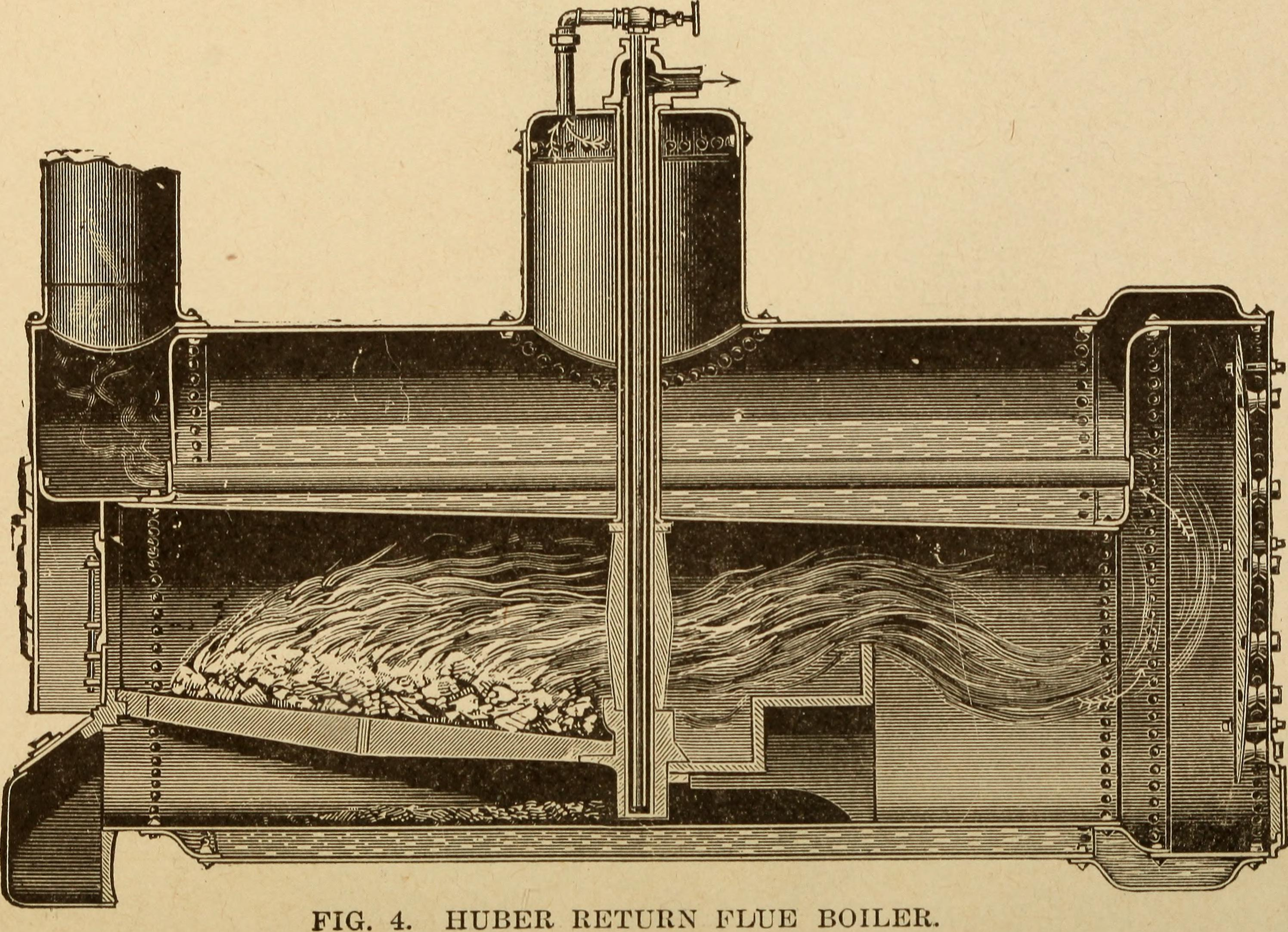 Title: Farm engines and how to run them; the young engineer's guide ... with special attention to traction and gasoline farm engines, and a chapter on the science of successful threshing Year: 1910 (1910s) Authors: Stephenson, James H Subjects: Farm engines Traction-engines Publisher: Chicago, F.J. Drake & Co. Text Appearing Before Image: FIG. 3. THE HUBER FIRE BOX. with water, to the smoke-box on the right, above whichthe smokestack rises. It wdll be noticed that the walls of the firebox aredouble, and that the water circulates freely all about thefirebox as well as all about the fire tubes. The inner wallsof the firebox are held firmly in position by stay bolts, aswill be seen in Fig. 3, which also shows the position ofthe grate. YoUNc engineers guide. Text Appearing After Image: 1301LEUS. \^ RETURN FLUE TYPE OF BOlLEk. The return flue type of boiler consists of a large :en-tral fire flue running through the boiler cylinder to thesmoke box at the front end, which is entirely closed. Thesmoke passes back through a number of small tubes, andthe smokestack is directly over the fire at the rear of theboiler, though there is no communication between the fireat the rear of the boiler and it except through the main flueto the front and back throughthe small return flues. Fig.4 illustrates this type ofboiler, though it shows butone return flue. The actualnumber may be seensectional view in Fig. 5. The fire is builtin one end of themain flue, and isentirely surround-ed by water, aswill be seen in theillustration. Thelong passage forthe flame andheated gases en-ables the water toabsorb a maximumamount of the heato f combustion.There is also anelement of safety inthis boiler in that the small flues will be exposed firstshould the water become low, and less damage will be